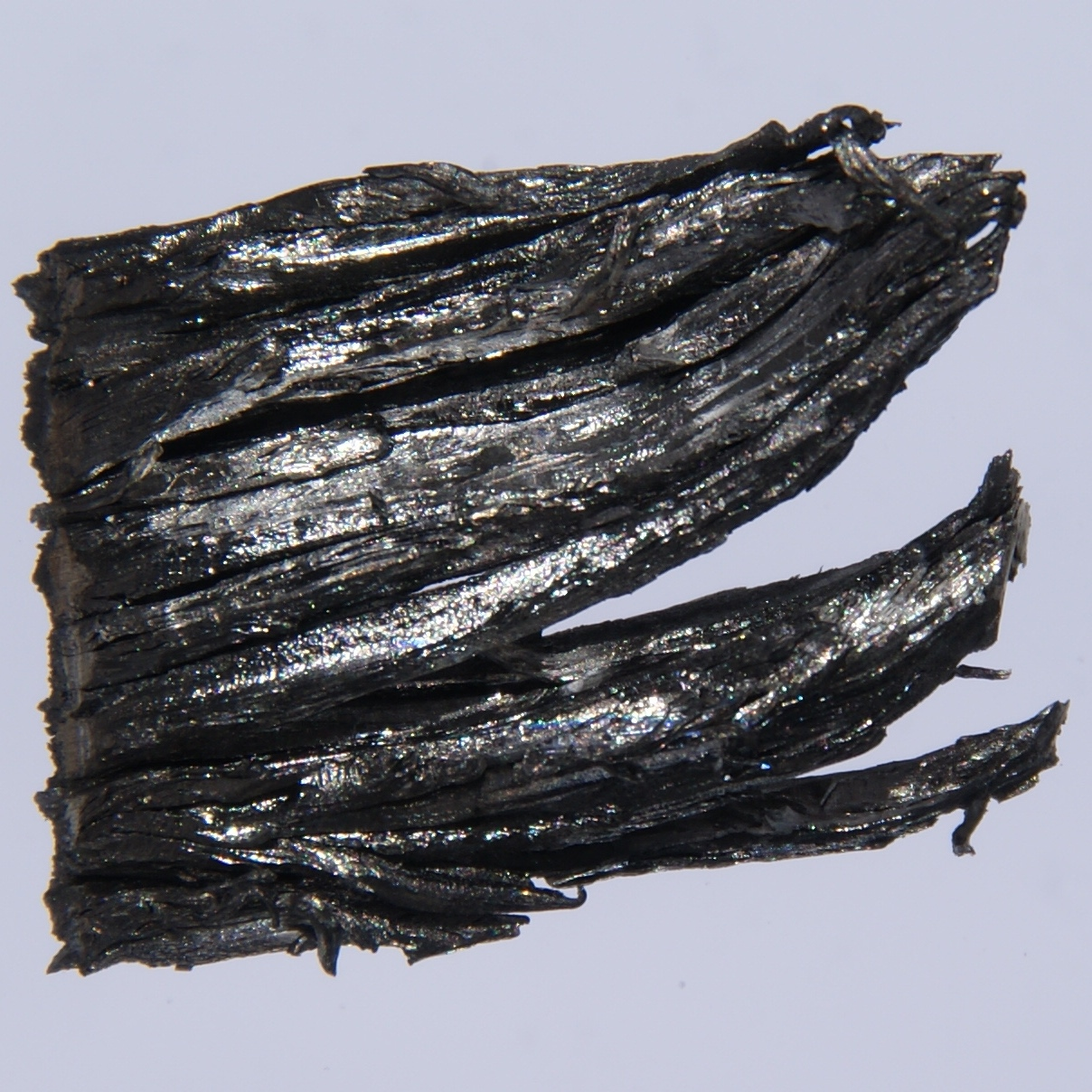 Dysprosium is a typical lanthanoid, which is not widely used so far. It is the best material for capturing hot neutrons, which has some applications in controlling nuclear processes.